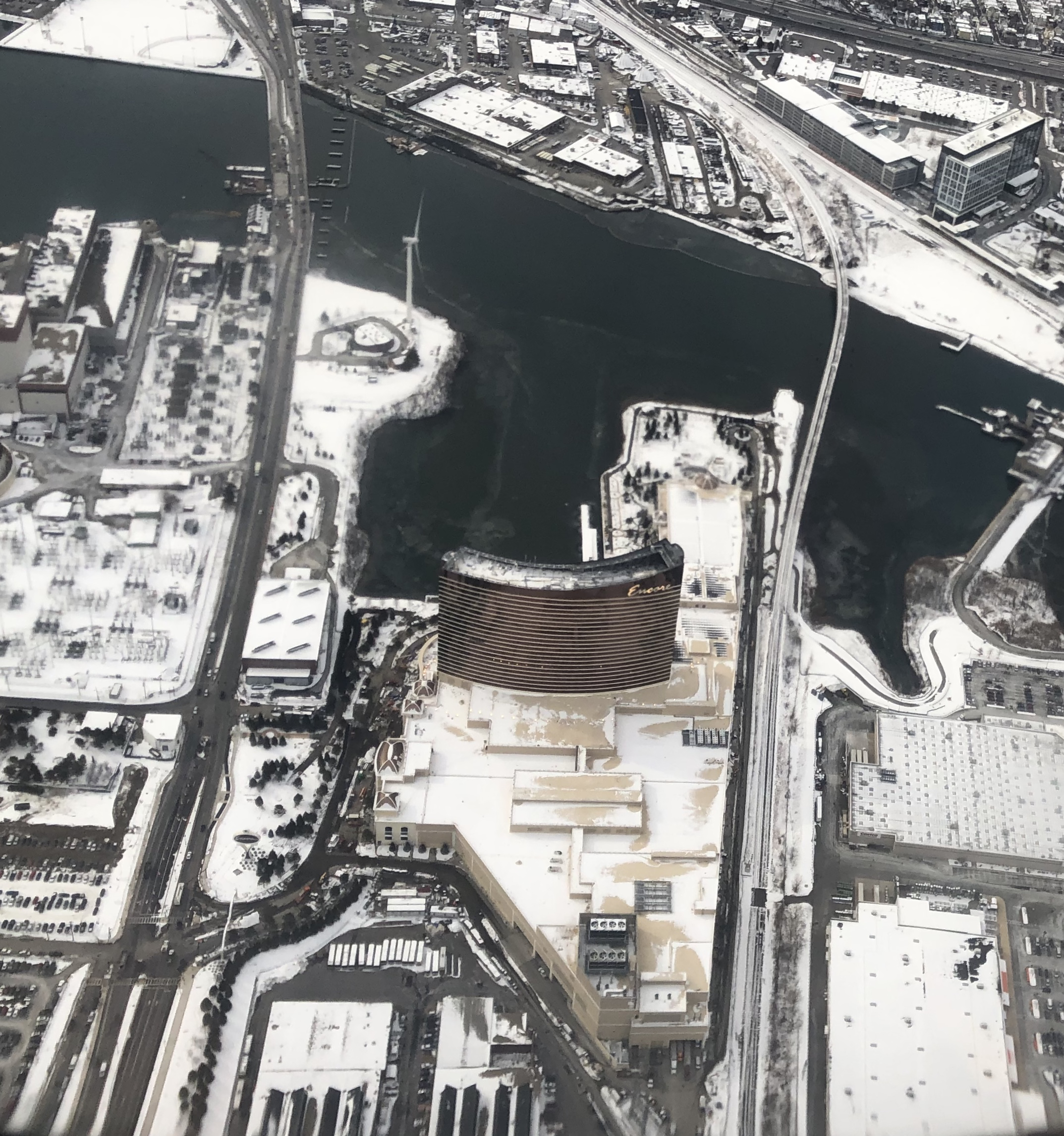 Encore Boston Harbor hotel from the air, JetBlue 1833